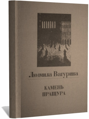 Lyudmila Vagurina, «Ancestor's stone»